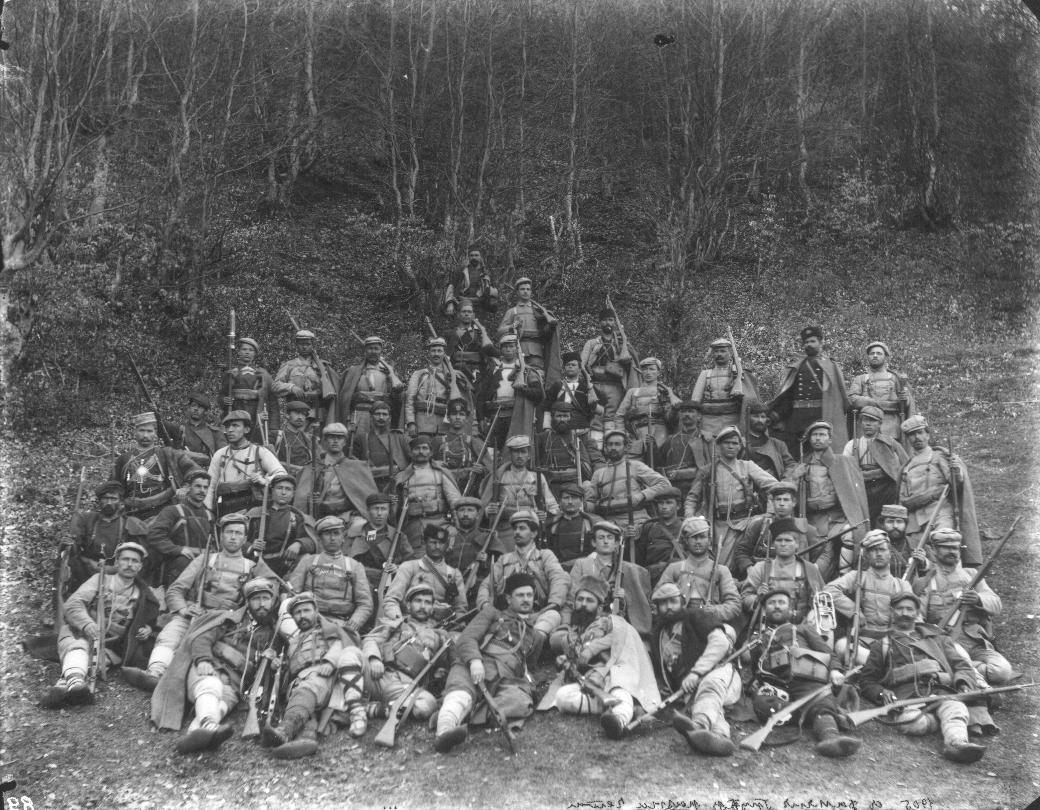 IMARO united chetas at Skopie congress, 1905 - Efrem Chuckov, Mishe Razvigorov, Atanas Babata, Stefan Dimitrov, Krustio Bulgarita and others